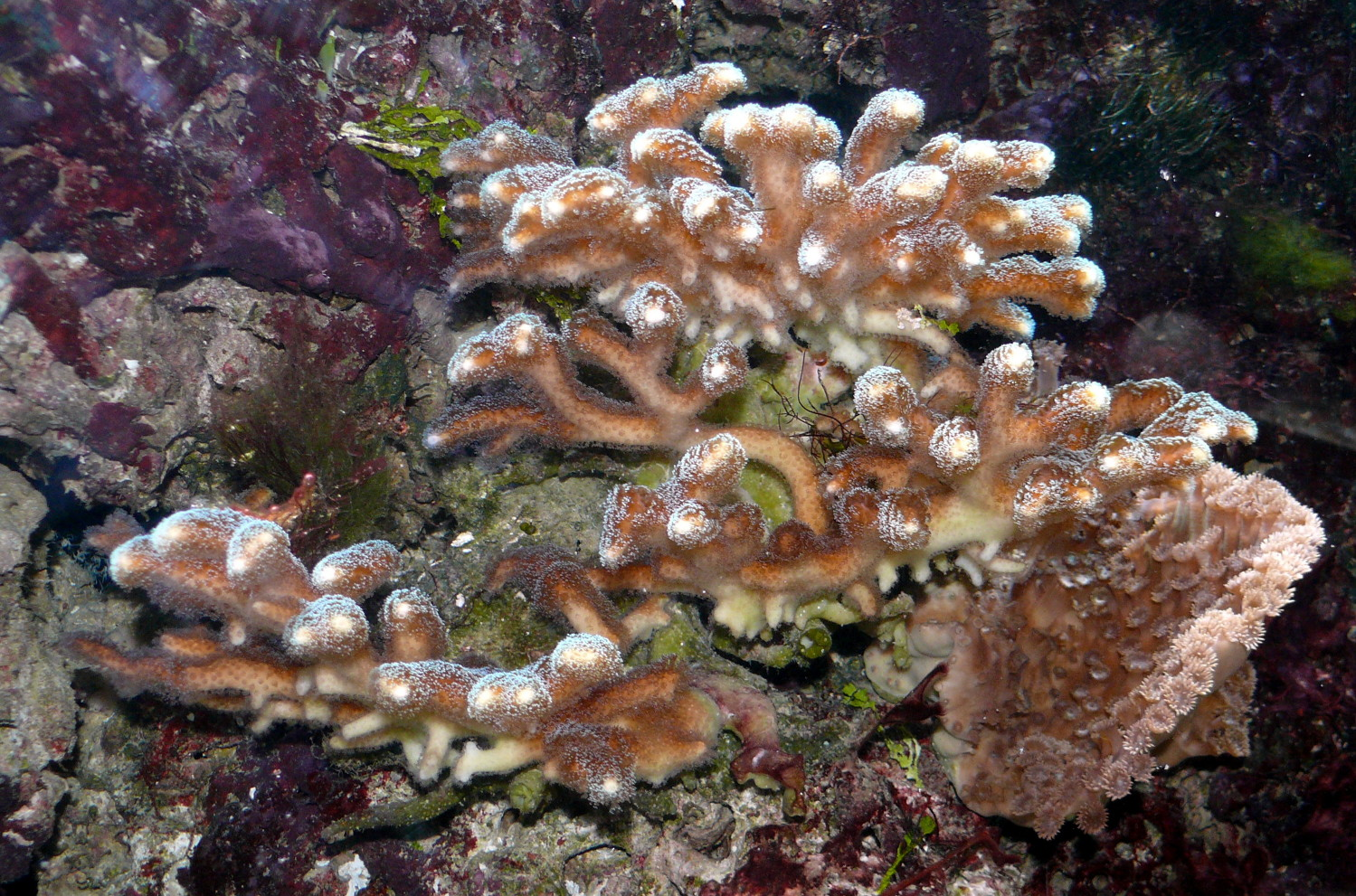 Stylophora pistillata, a Stony coral